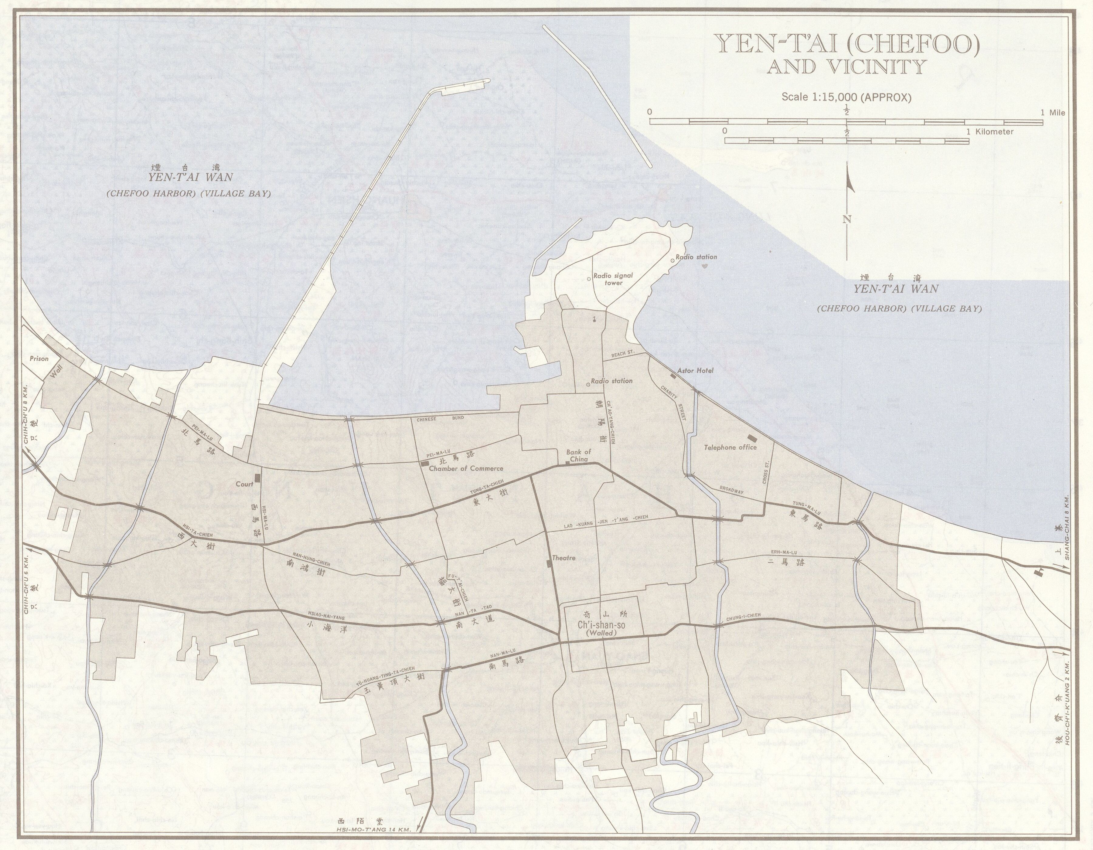 China AMS Topographic Maps